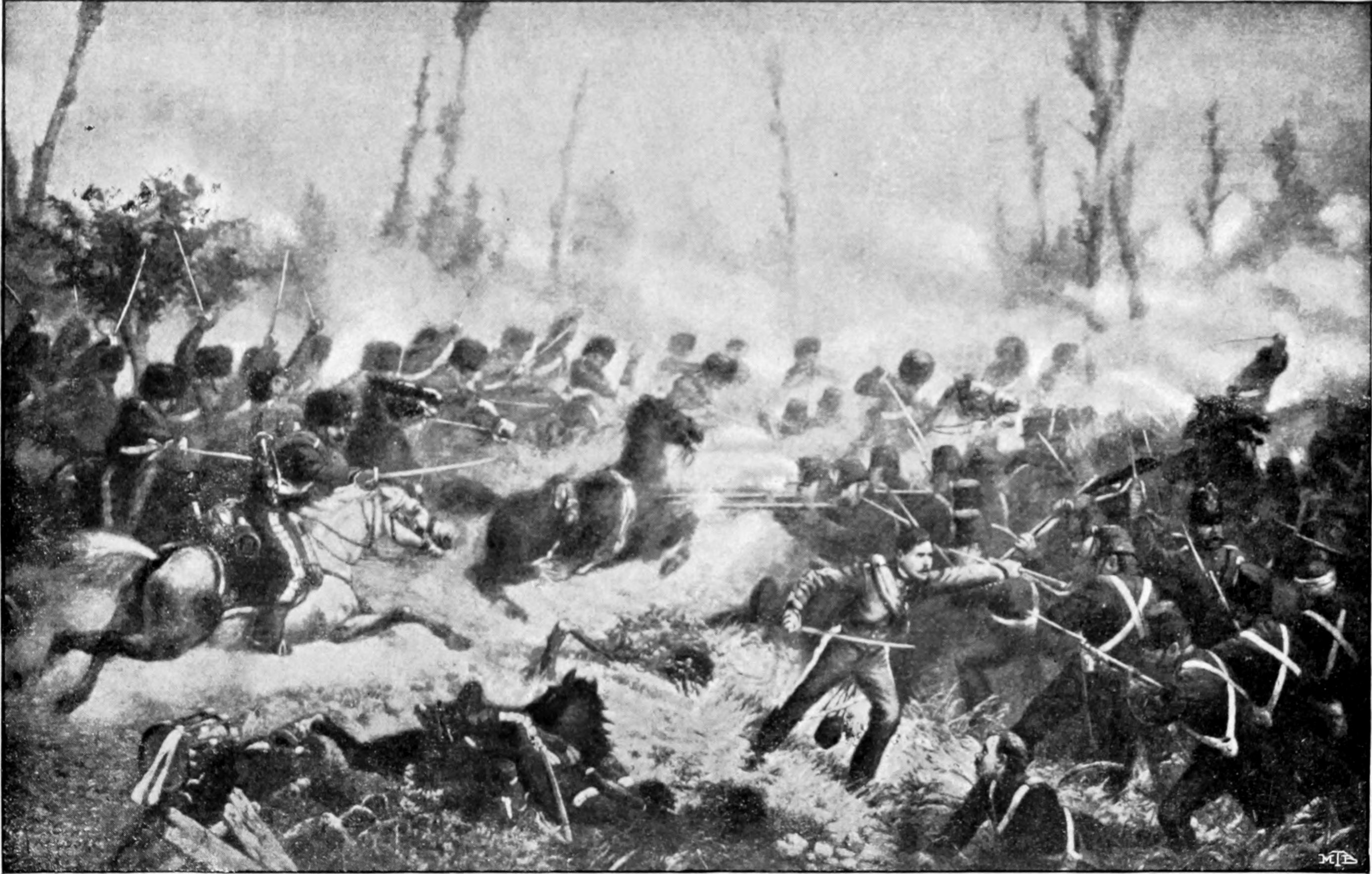 Image from book: Leopoldo Pullè, Patria Esercito Re, Ulrico Hoepli, Milan, 1908.